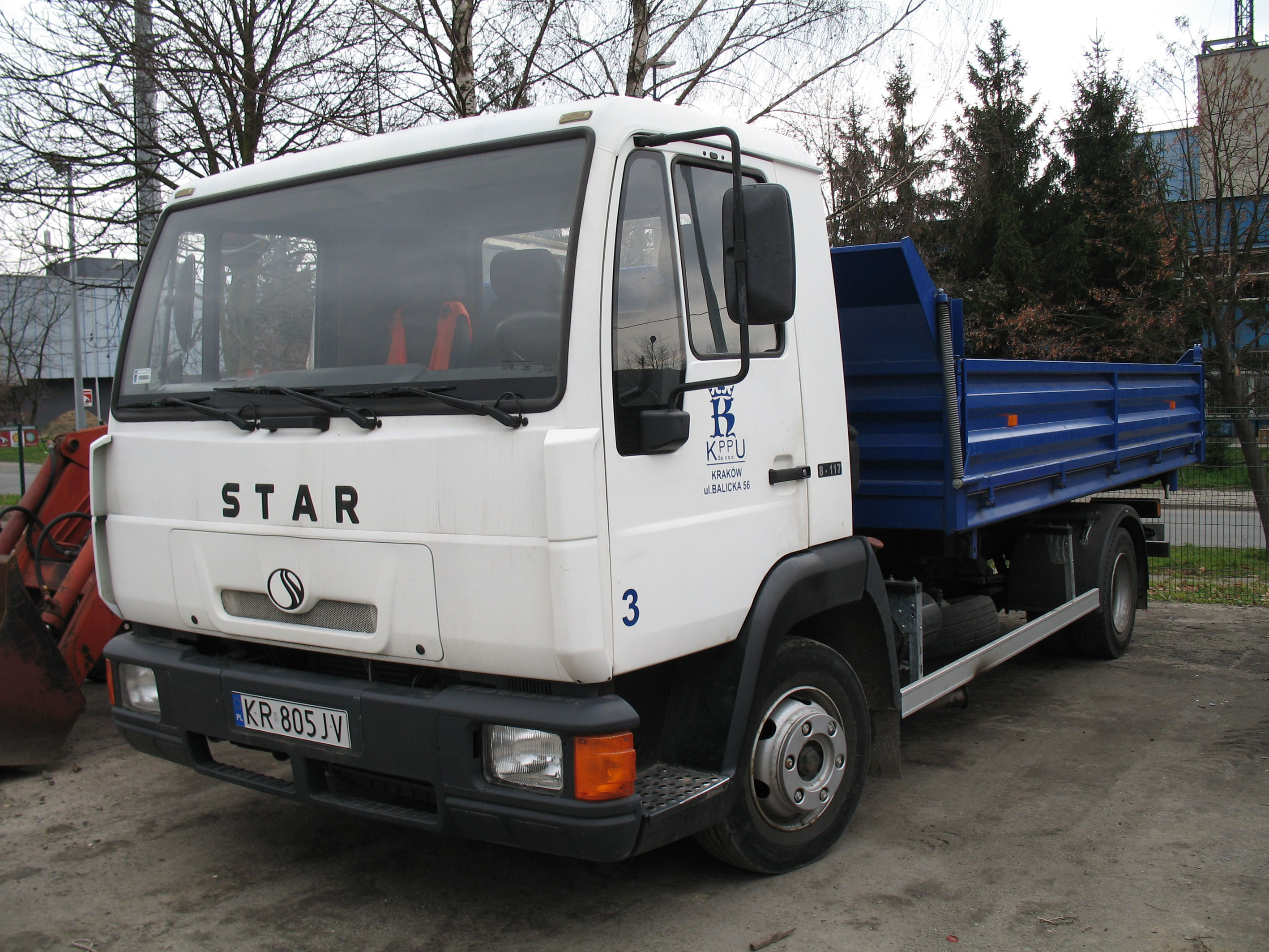 Star 8.117 truck (S2000 series) in Kraków, Poland.